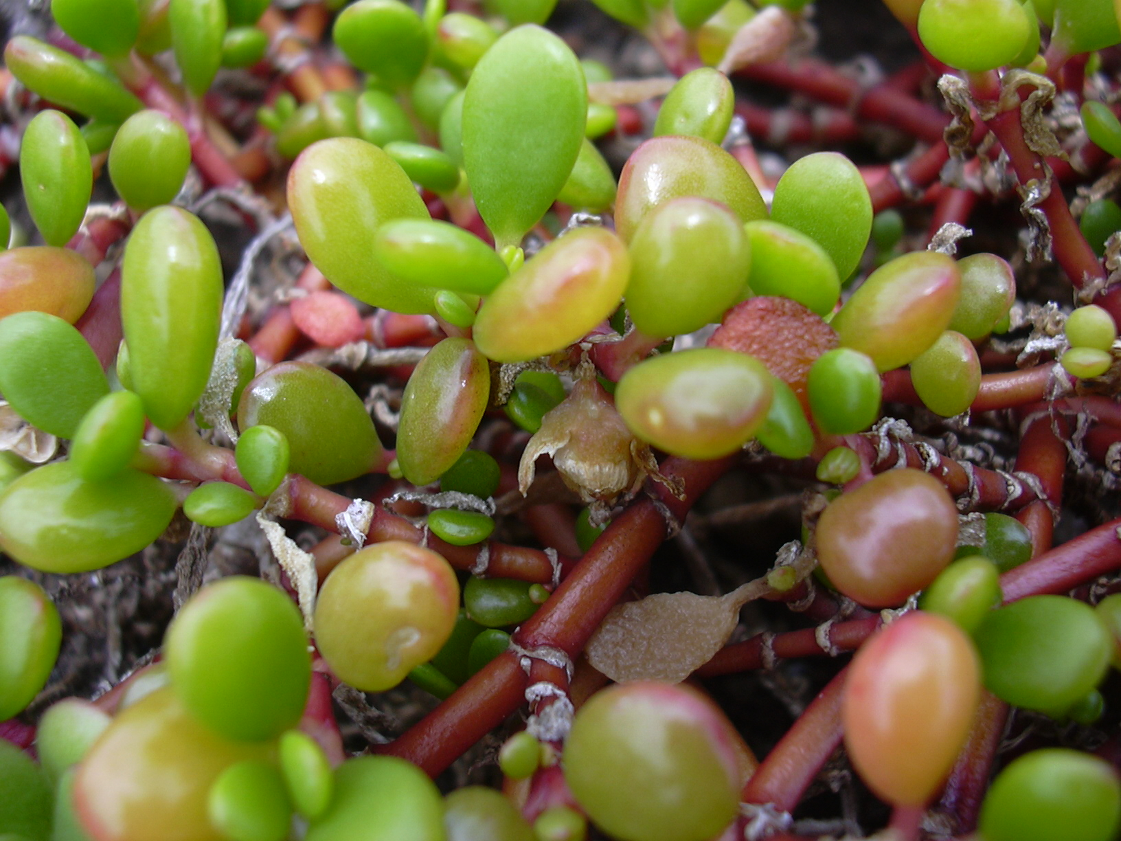 Sesuvium portulacastrum (habit). Location: Maui, Puhilele Haleakala National Park